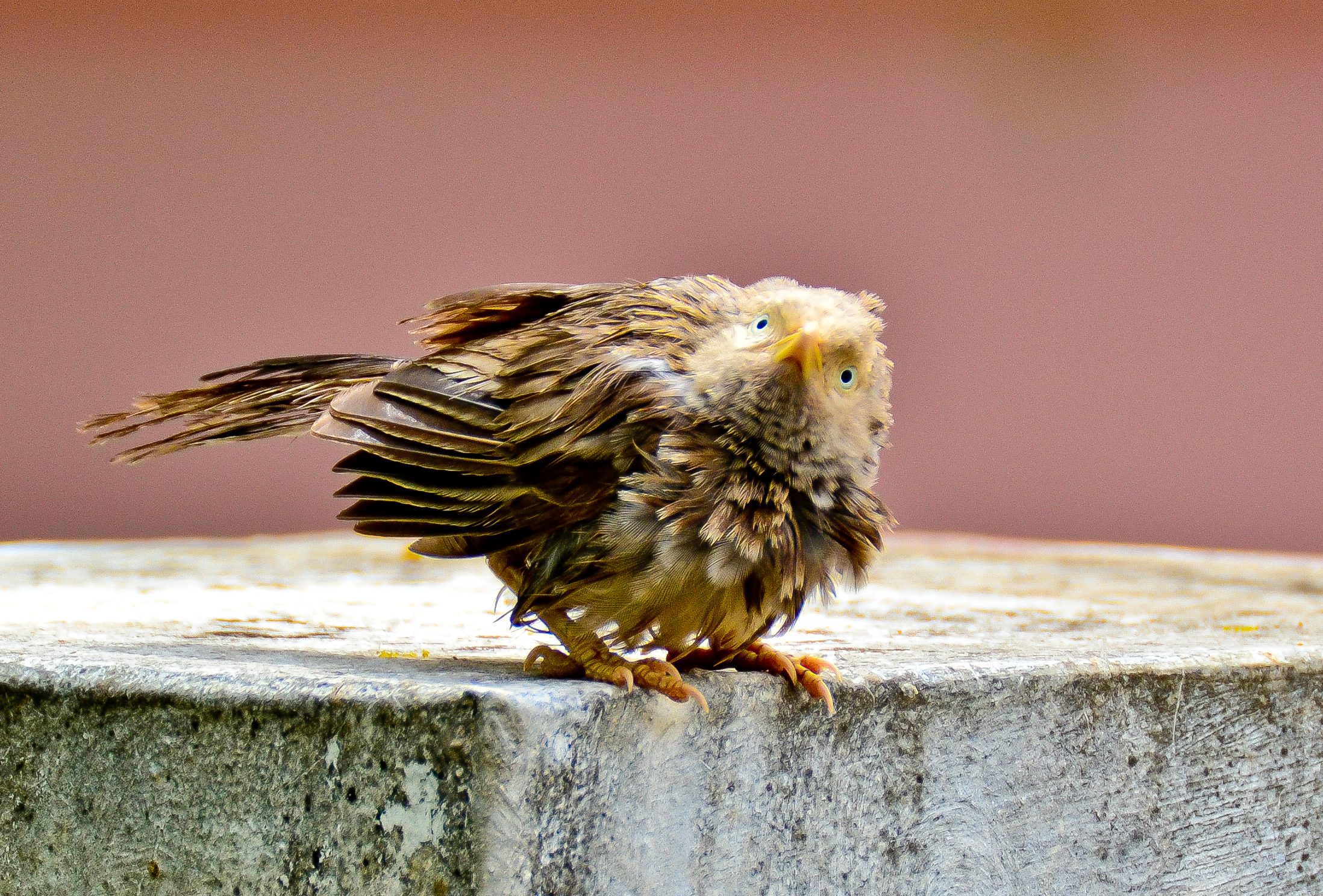 A Yellow-billed Babbler (Turdoides affinis) after a water bath in Tirunelveli, Tamil Nadu, India